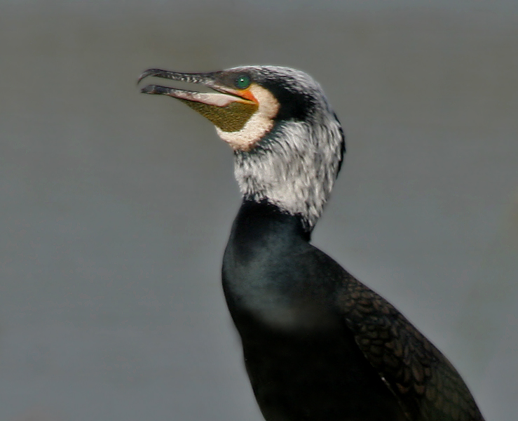 Great Cormorant, Great Black Cormorant, Black Cormorant or Black Shag Phalacrocorax carbo near Hodal, Faridabad, Haryana, India.